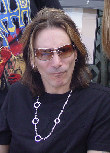 Steve Vai, May 2007